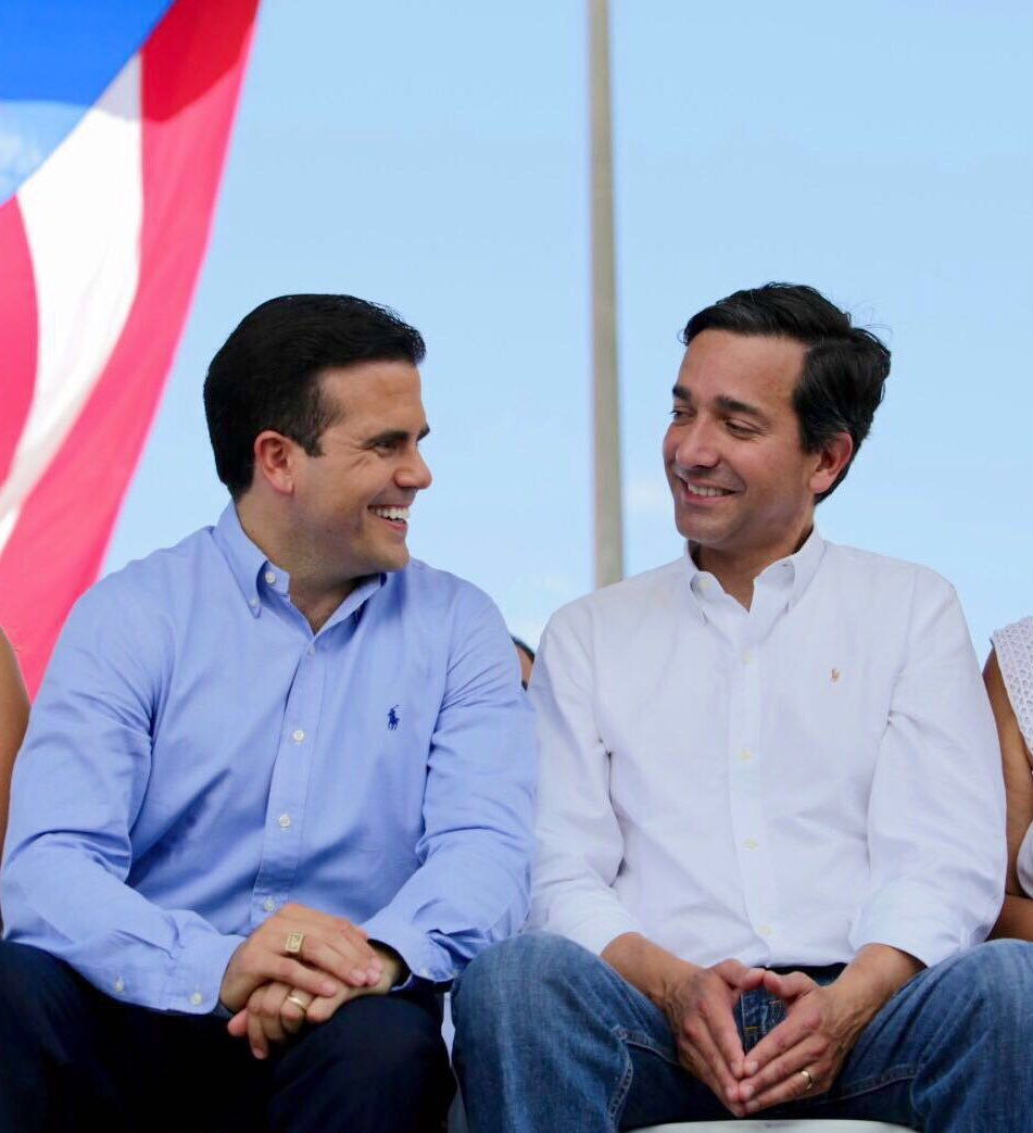 Ricardo Rossello Master Photo